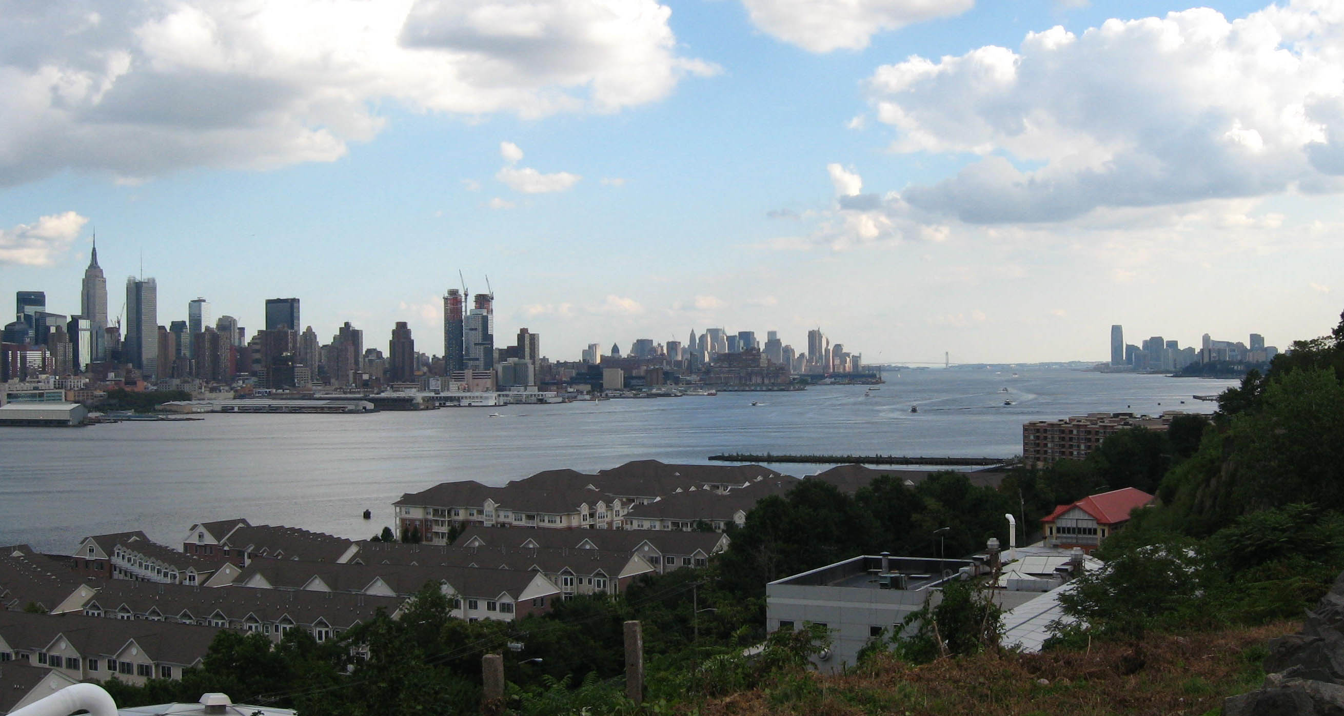 Looking down the North River (New York-New Jersey) from Gutenberg, New Jersey towards VZ bridge on an early afternoon with rainstorm retreating eastward